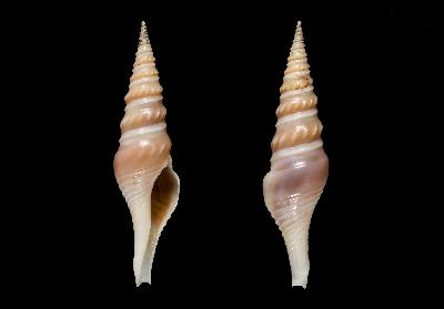 Fusiturris amianta procera Bozzetti, 2015 (holotype); family Clavatulidae; Cameroon